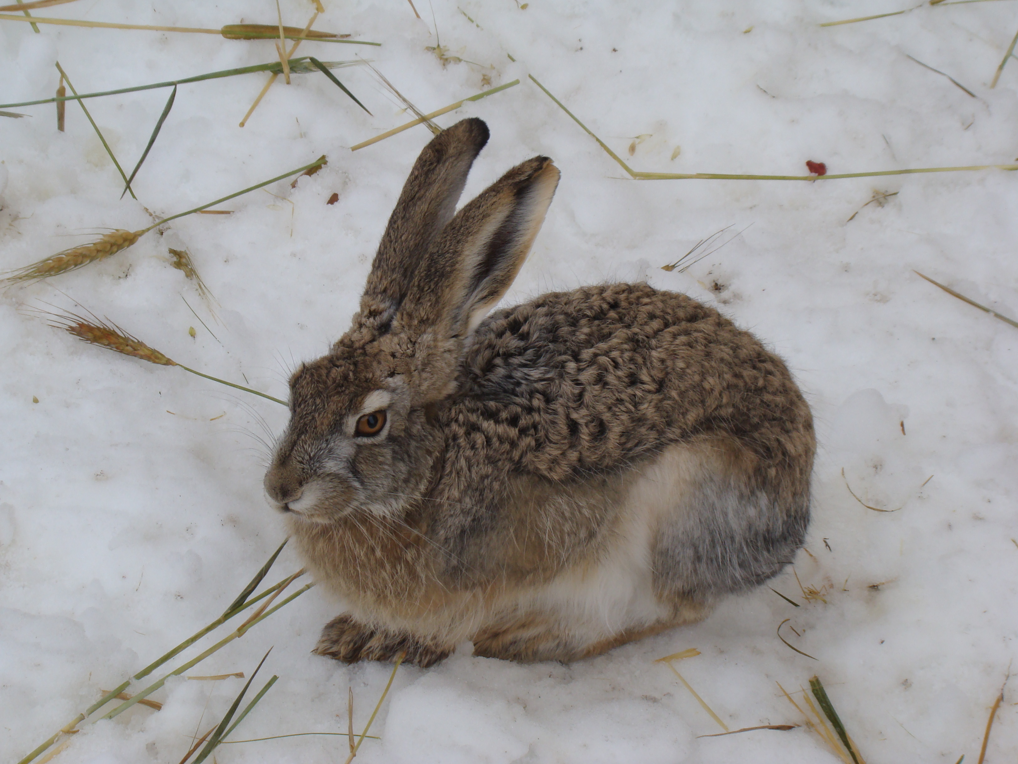 Woolly hare (Lepus oiostolus) in Spiti